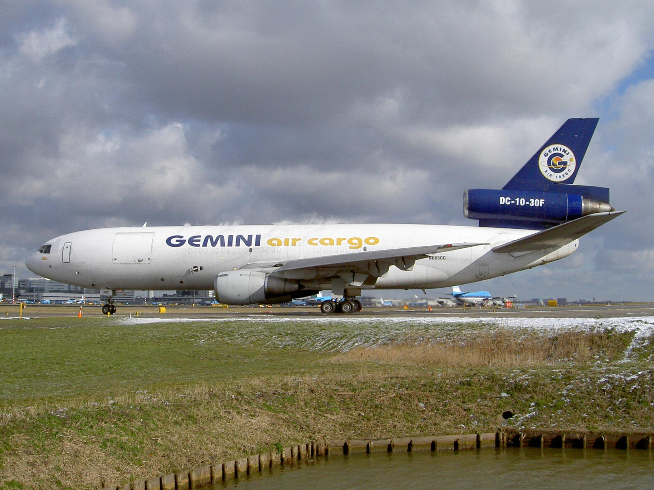 Photographed at Amsterdam Airport, (Schiphol).